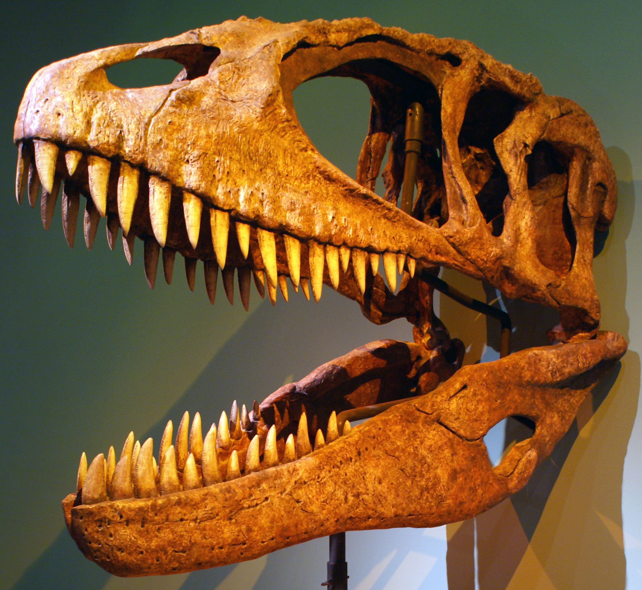 Africa?s answer to T-rex Age: 90 million years old Length: 27 feet Origin: Morocco